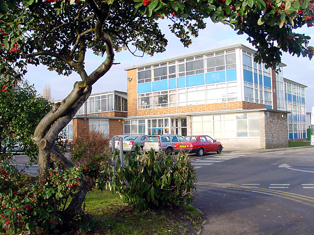 Monks Park School. This is the current buildings that are used by the school, though they are about to move into new buildings ST5978 : Monks Park School - New Buildings. I believe Monks Park school opened in 1957.